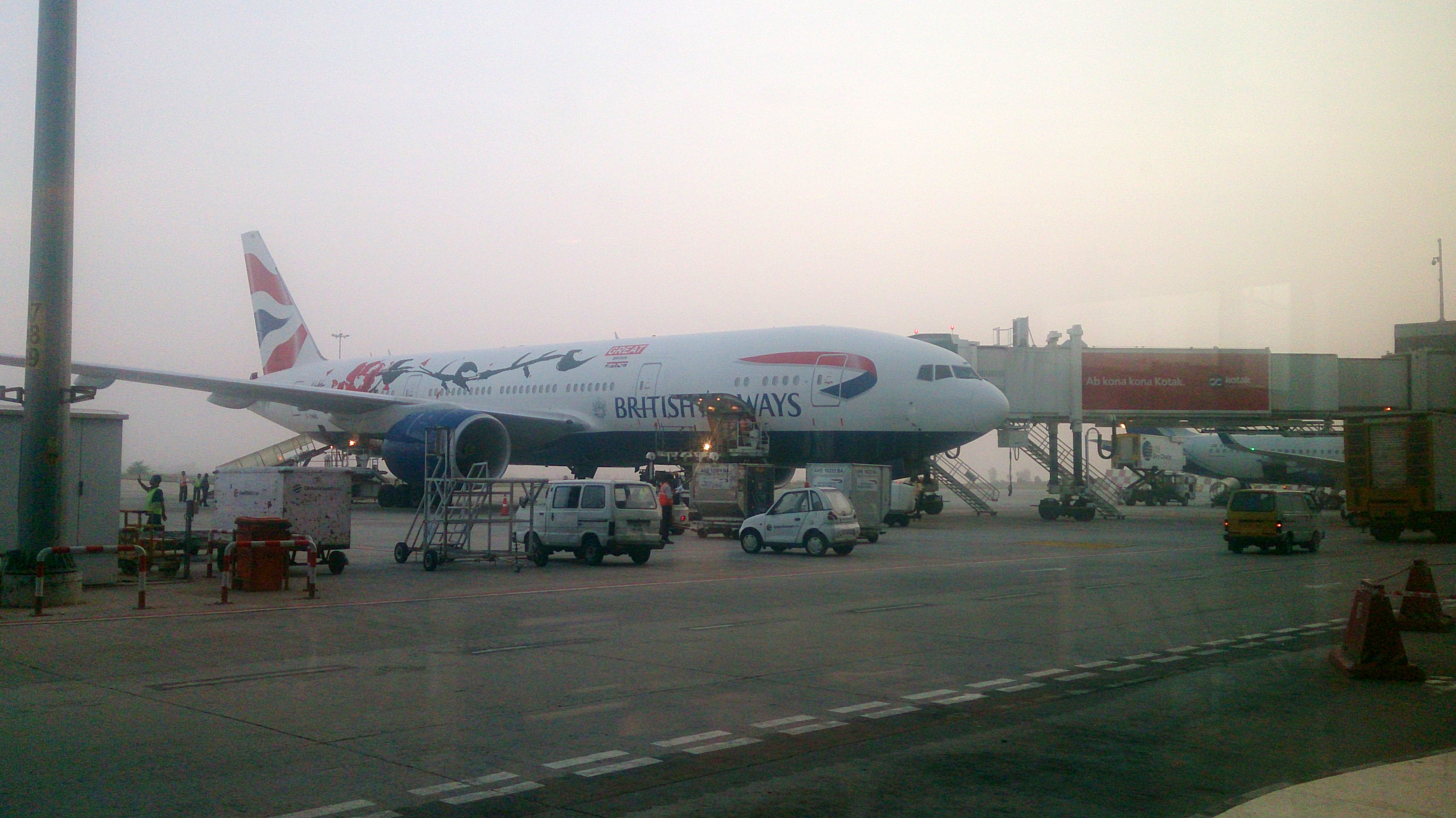 British airwyas Boeing 777 2015 Livery